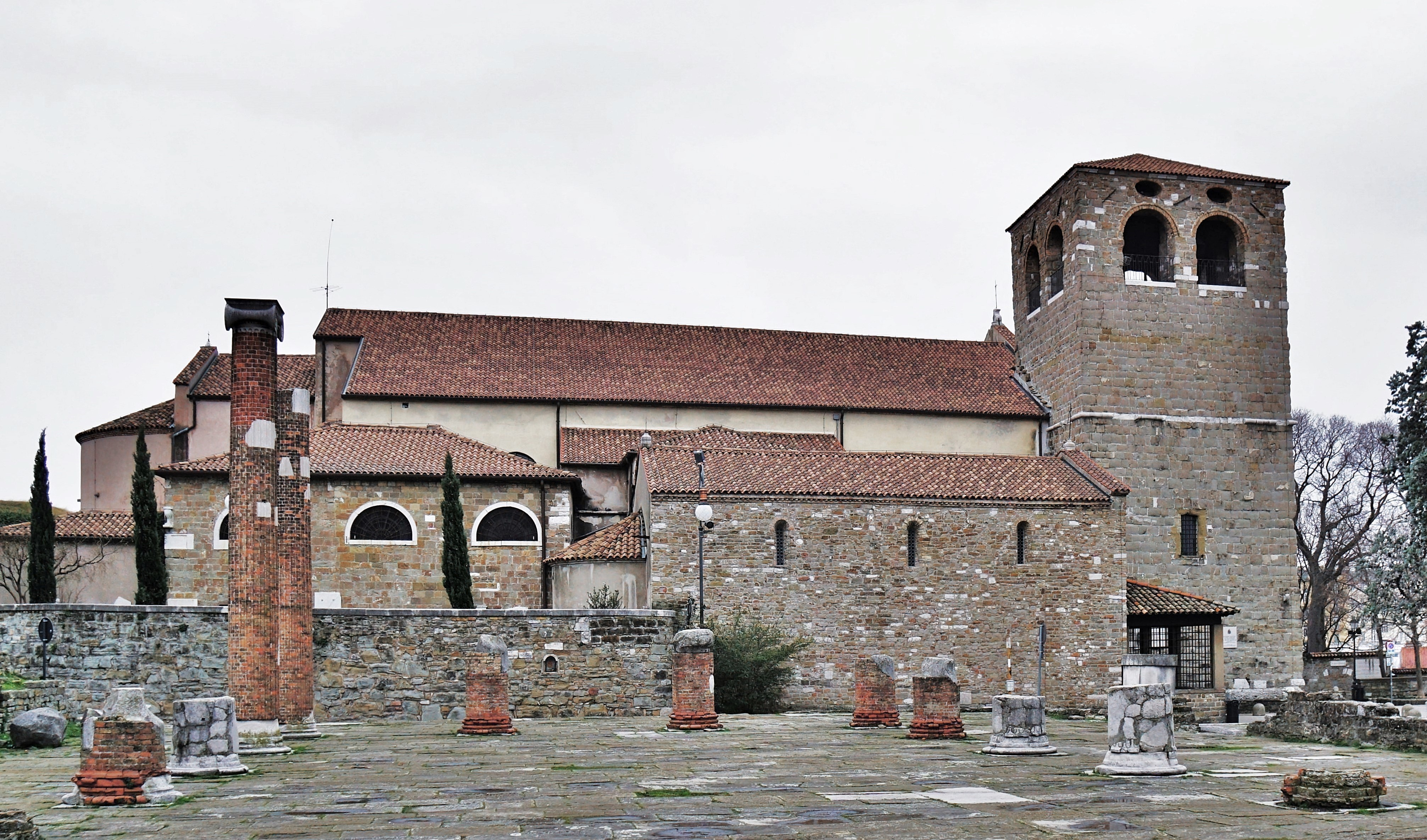 Trieste, the cathedral of San Giusto